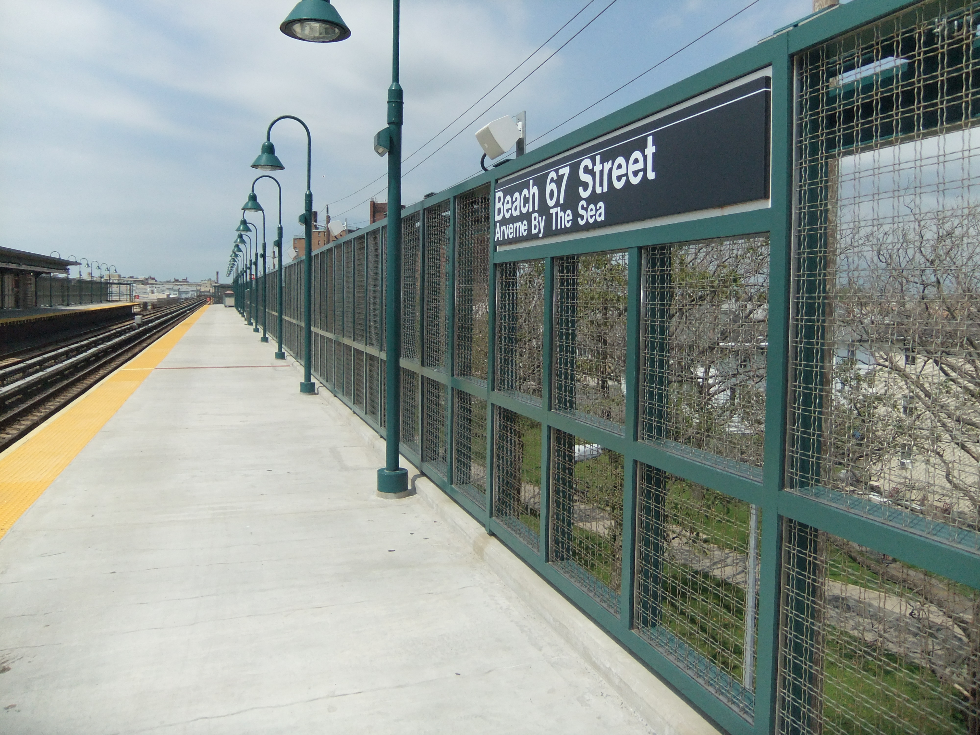 Brooklyn bound platform at Beach 67th Street - Arverne station.